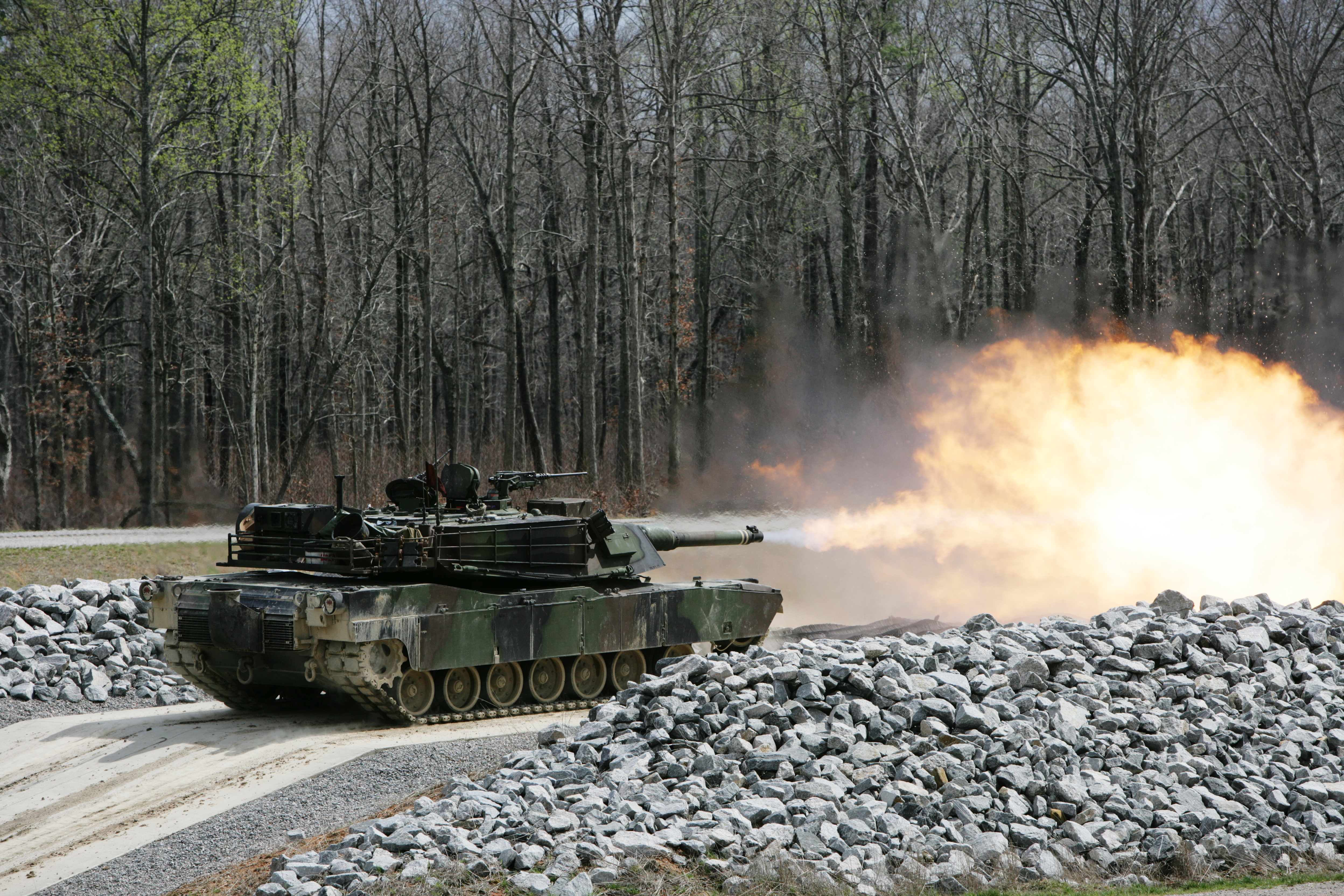 A M1A1 Abrams tank fires a round from its 120-mm-gun during a training exercise where the Marines used a degraded mode of gunnery at Fort Pickett.